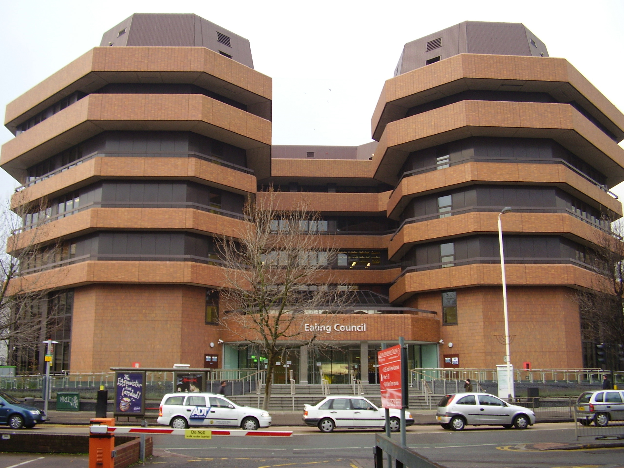 Perceval House, Ealing, seen from the front. Own work, uploaded 2006-01-08.